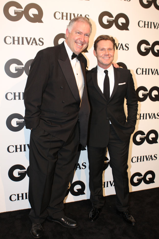 Steve Vizard (L) and GQ Australia editor Nick Smith (R) at GQ Men Of The Year Awards 2011